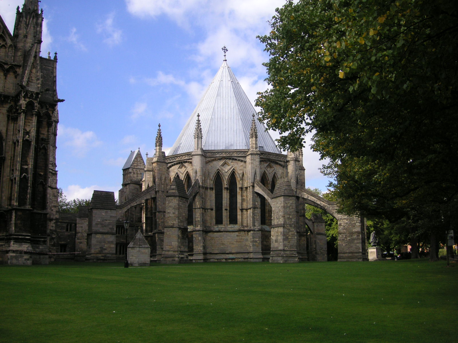 England, Lincoln Cathedral, The decagonal Chapter House with its large flying buttresses